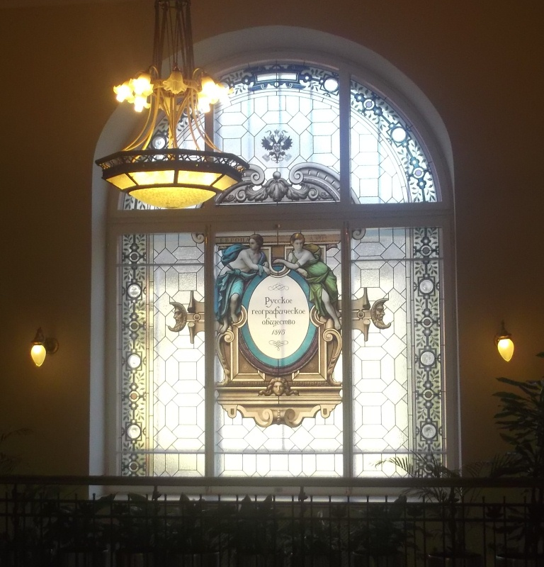 rgo_vitraz